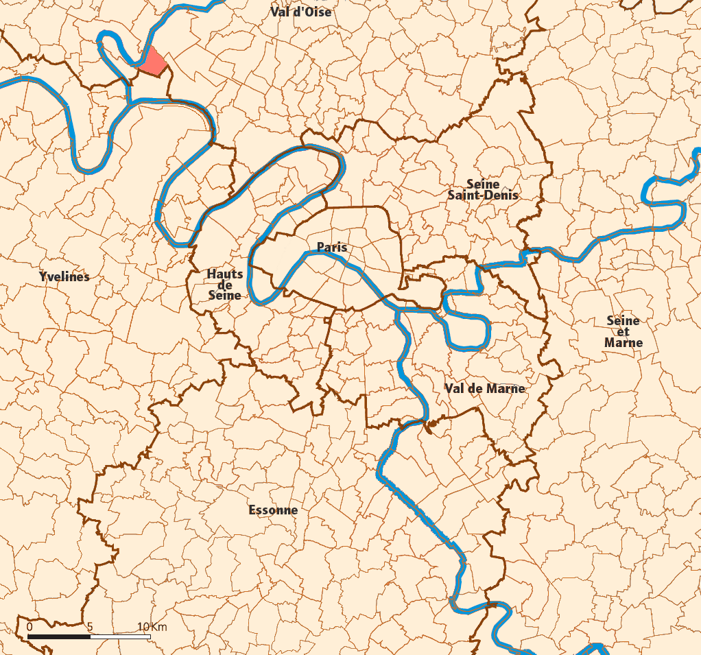 Created map myself.